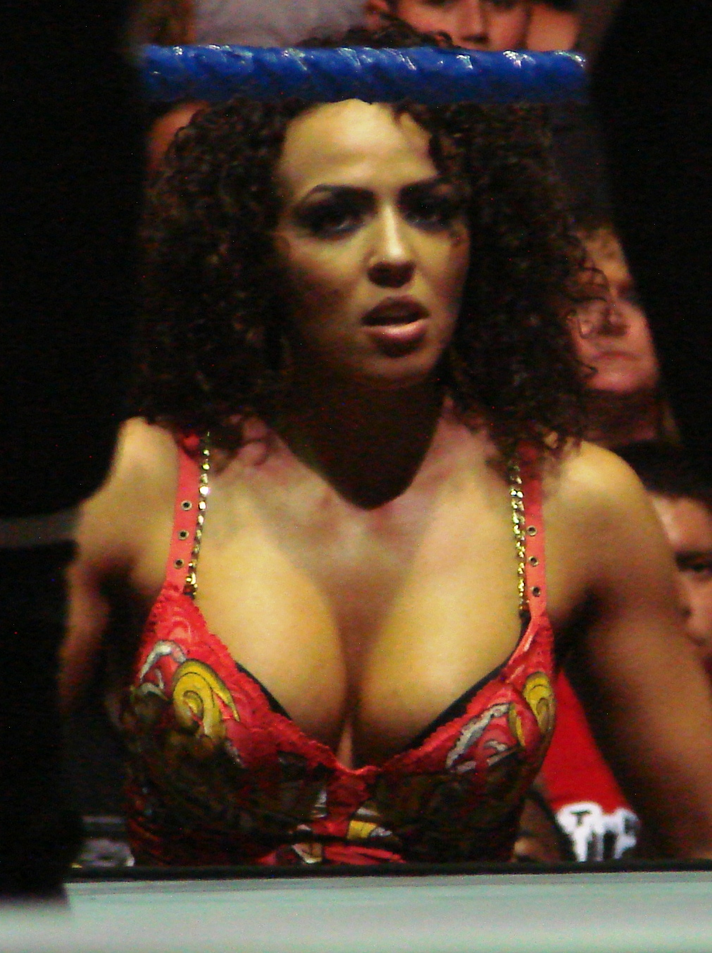 Layla El at a Smackdown Live Event. Hammond Civic Center, Hammond IN, September 24, 2007. Taken by me, cropped and brightened.